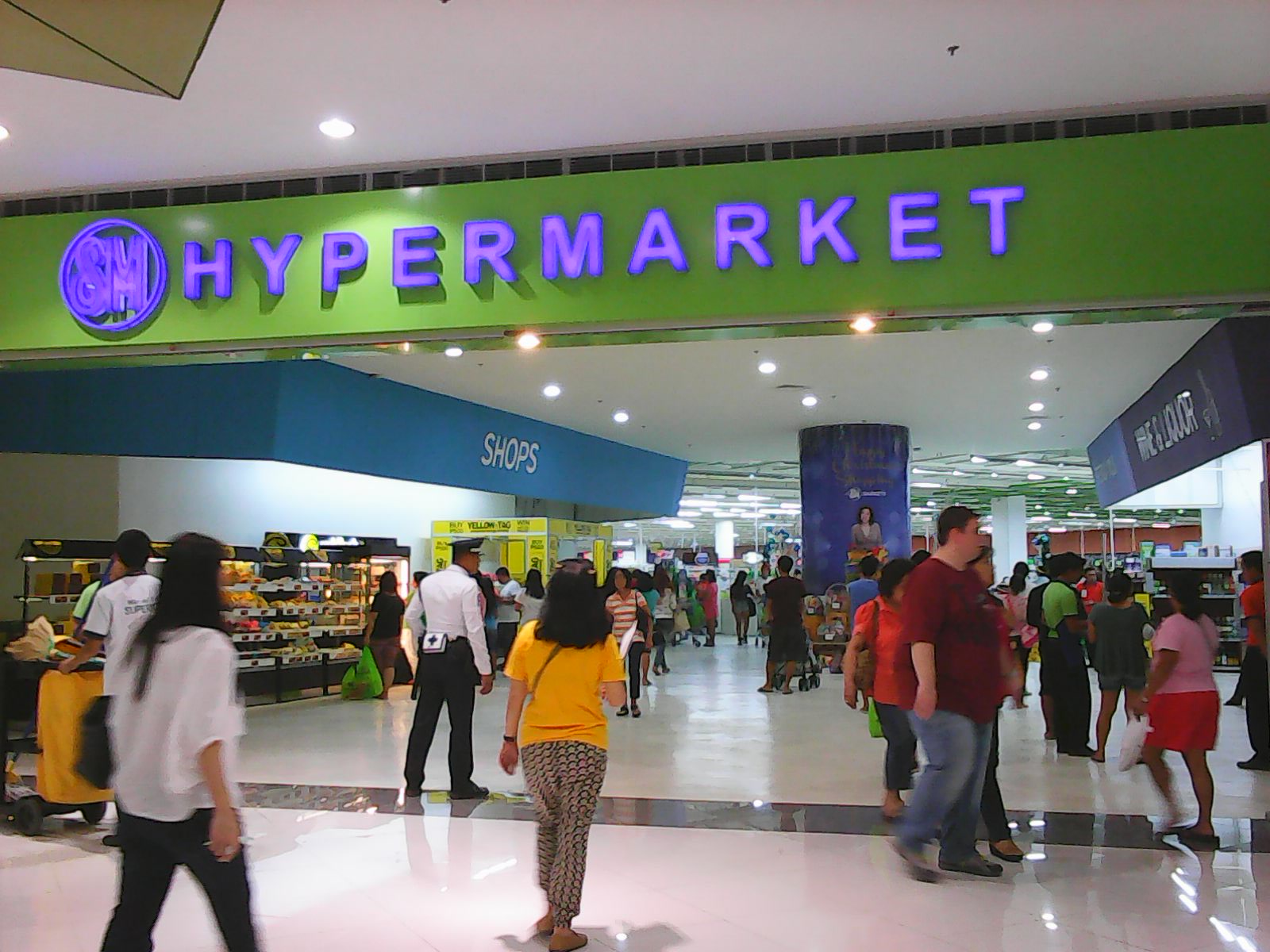 An SM Hypermarket in SM City Sucat.